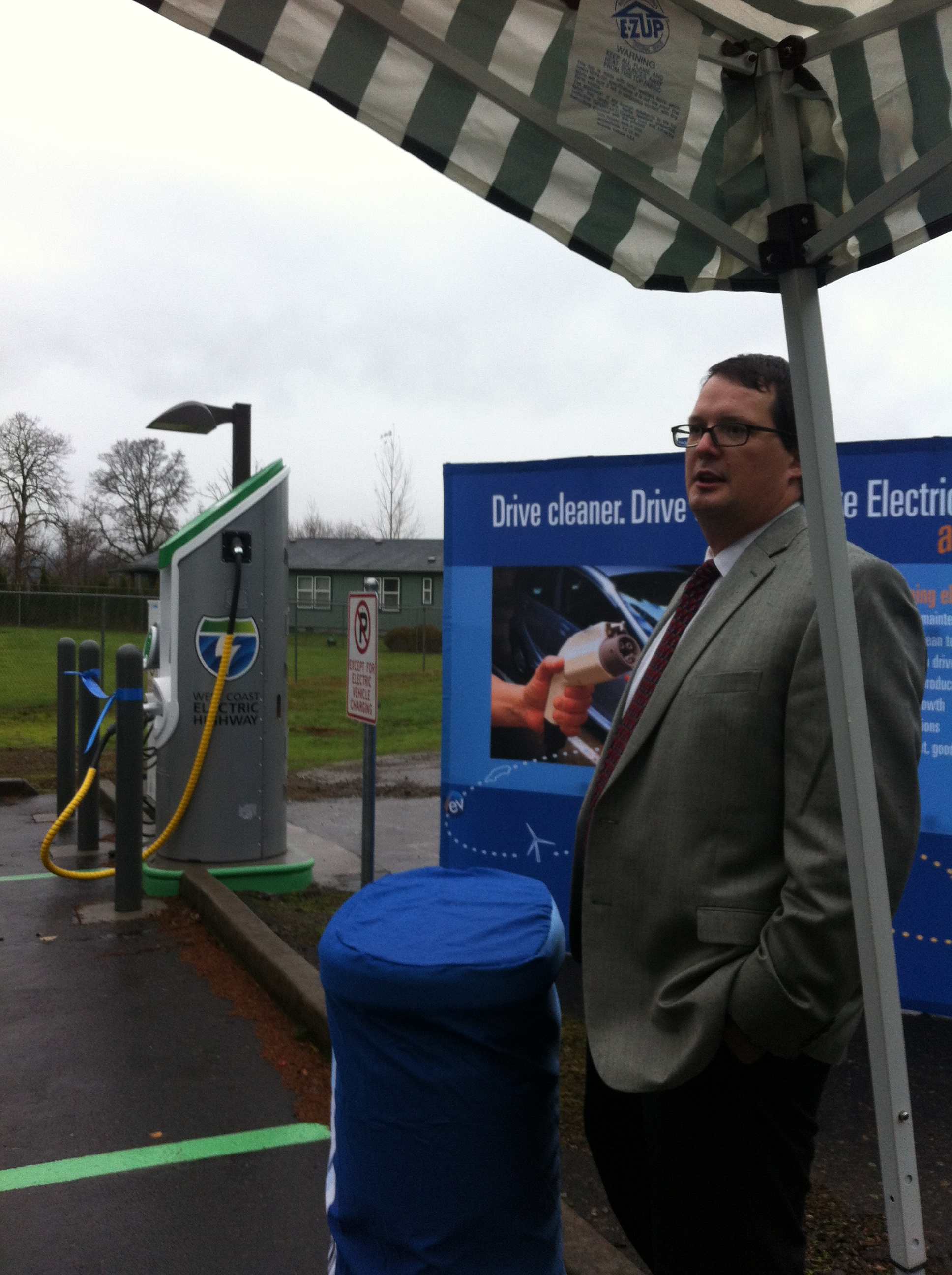 Cascade Mayor Lance Masters welcomes EV enthusiasts to the dedication of the new EV charging station.